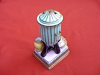 19th century French porcelain inkwell decorated brown stripes on green ground 3½" tall urn on tripod with shell tray and yellow pen holder. mounted on rectangular base approx 3"x2" within toothed yellow metal base. Overall height 5". Photo taken by author John Beniston.